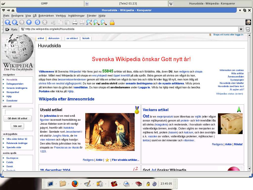 Konqueror displaying Swedish Wikipedia